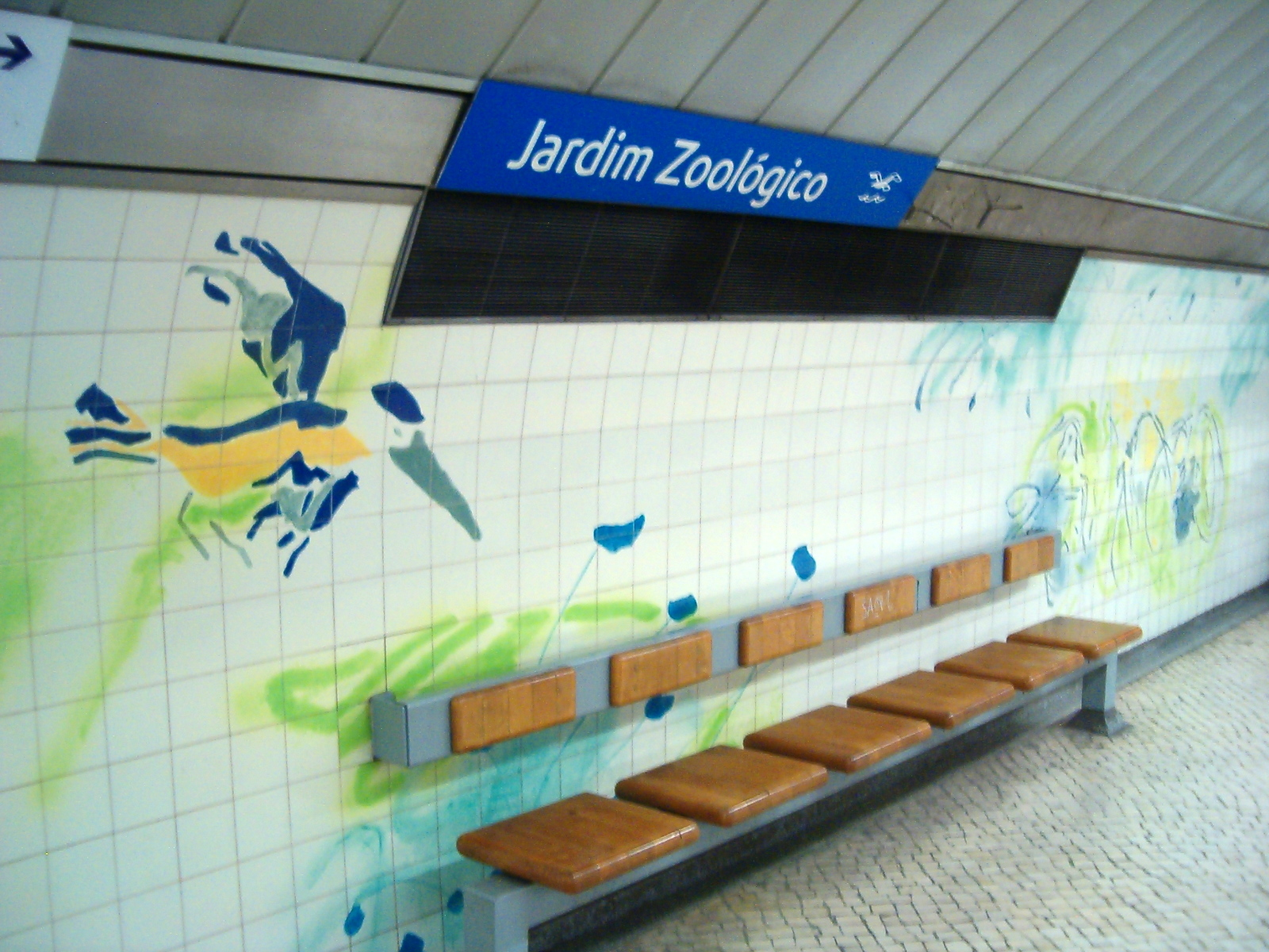 Metro station Jardim Zoológico (Lisboa)